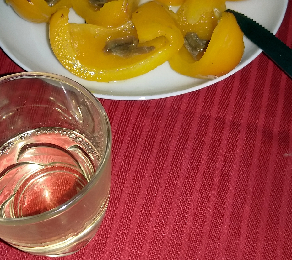 Grape pomace-pickled peppers (Piedmontese recipe) with oil and anchovies